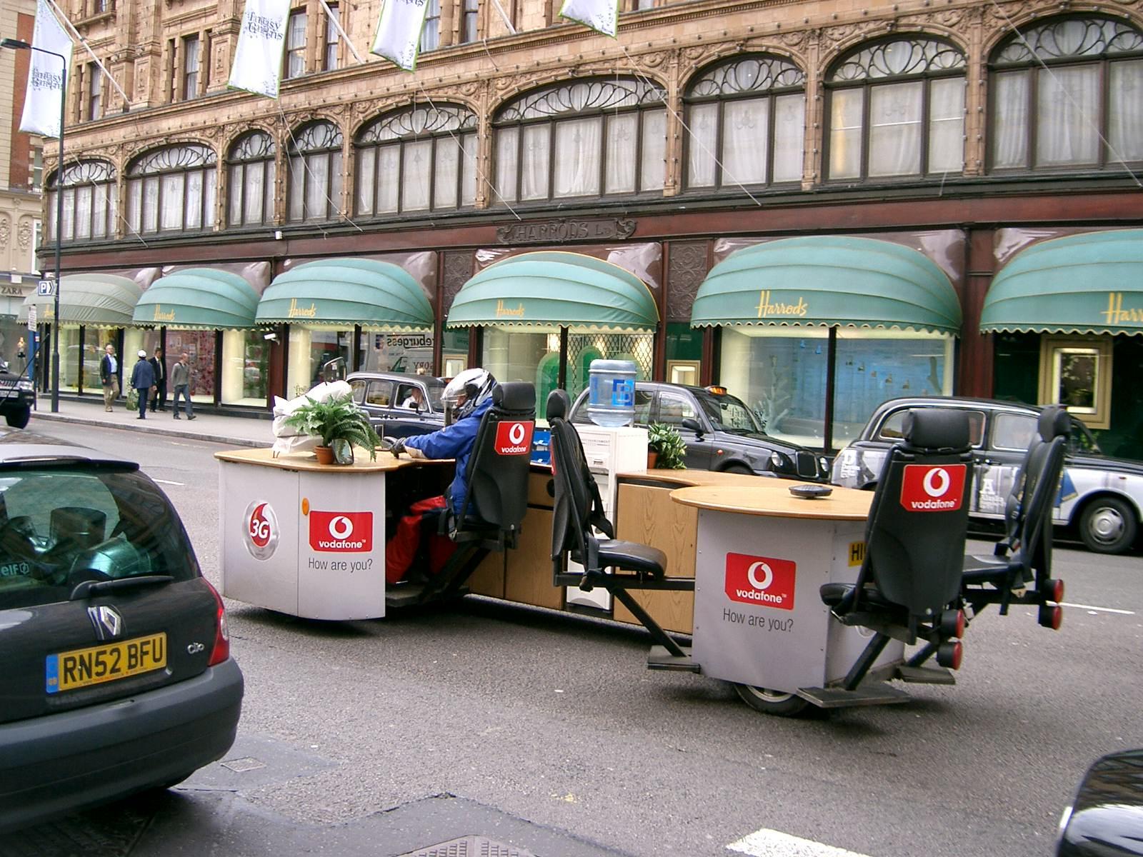 Mobile Office on the Streets of London